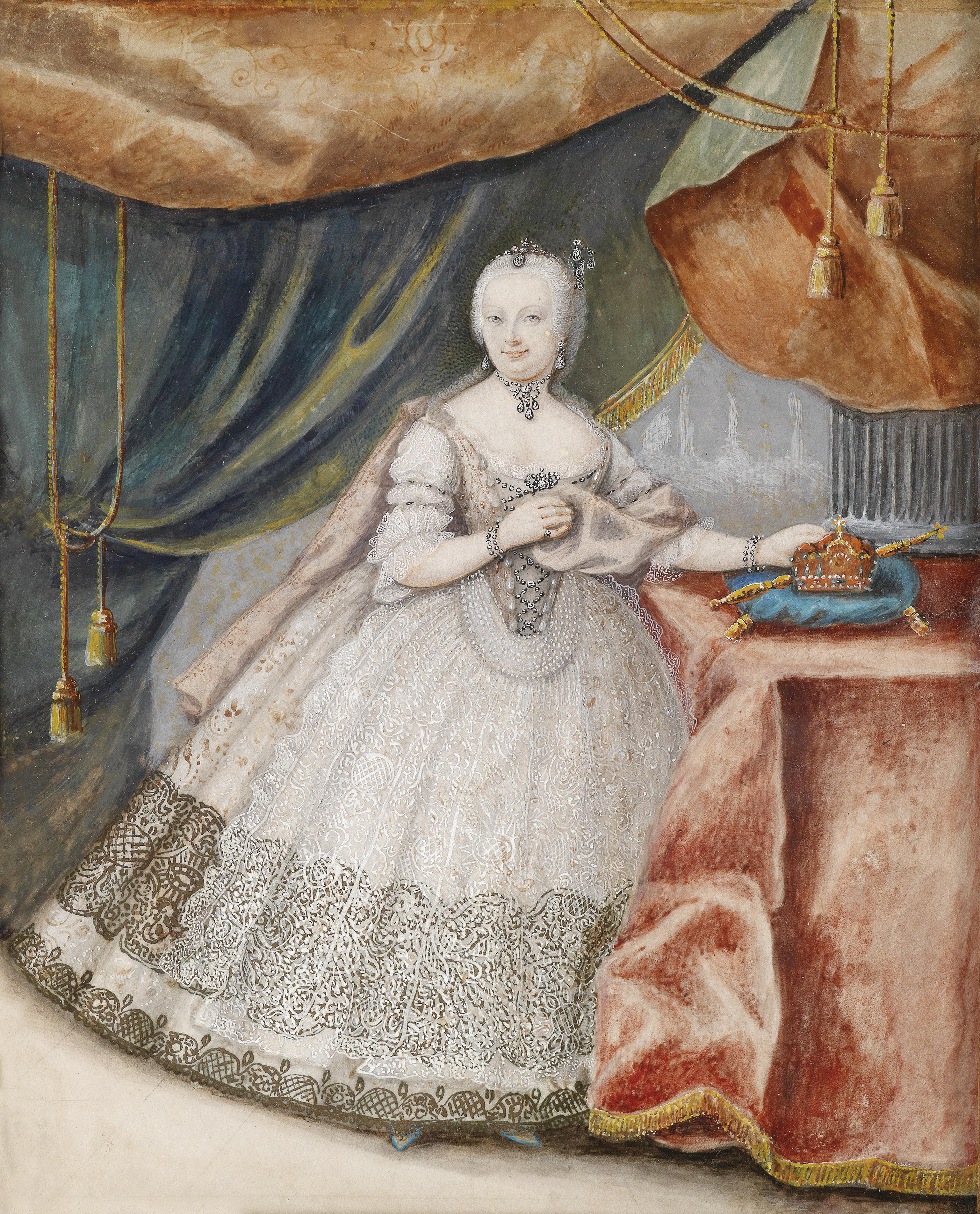 Portrait of Empress Maria Theresa (1717-1780)